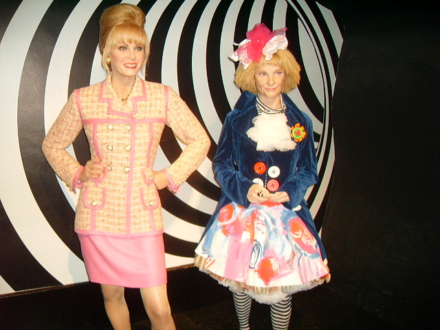 Joanna Lumley and Jane Horrocks waxwork at Madame Tussauds in Blackpool, Lancashire